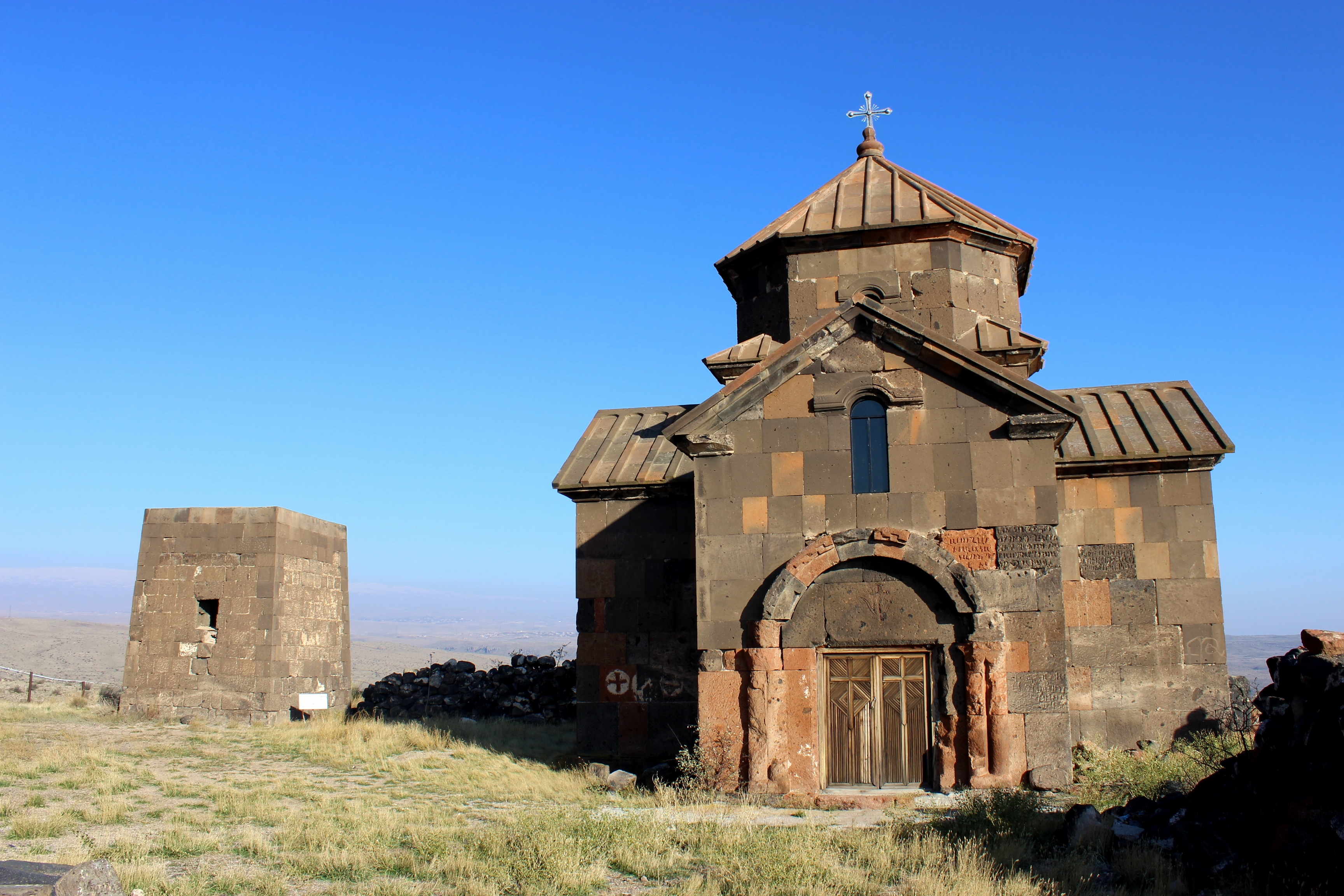 Kristapori Vank (7th-century, restored) with 13th century rectangular bell tower (left), near Dashtadem Village, Aragatsotn Province, Armenia.